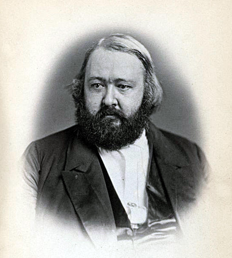 William Lewis Dewart, US Representative from Pennsylvania